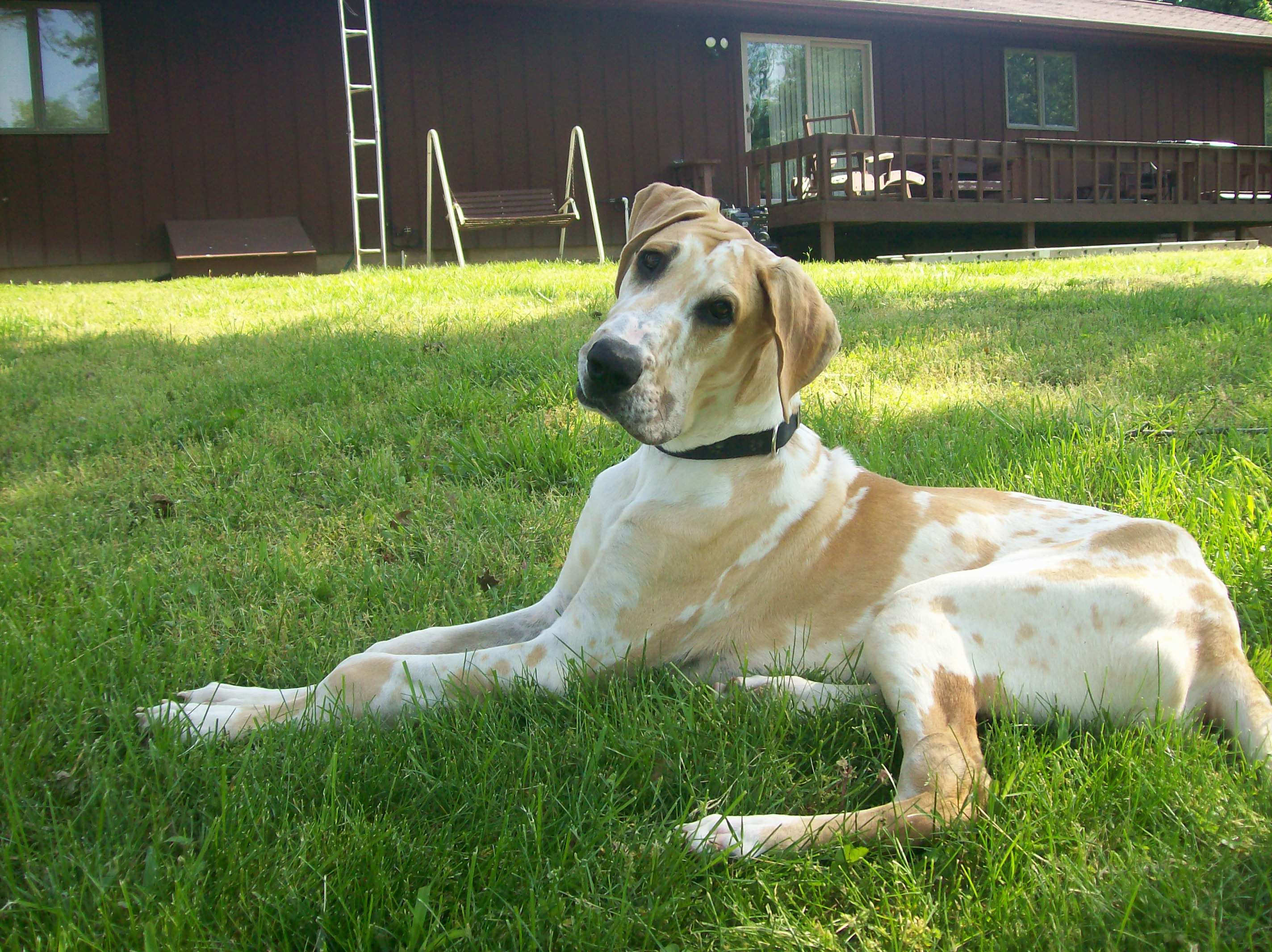 This is a Fawnequin Male Great Dane. White with Fawn Spots.